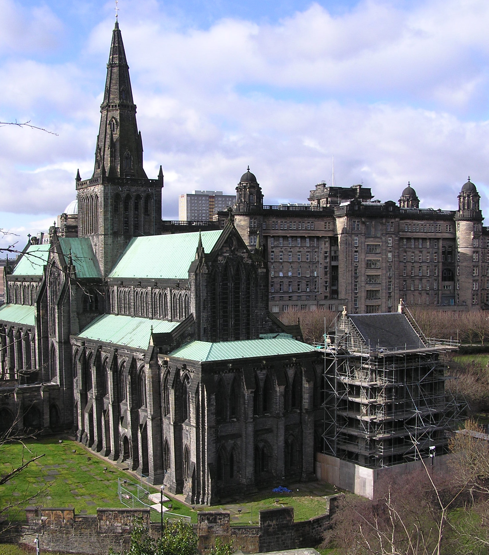 Glasgow Cathedral in Glasgow, Scotland Taken by Finlay McWalter on 2nd March 2004